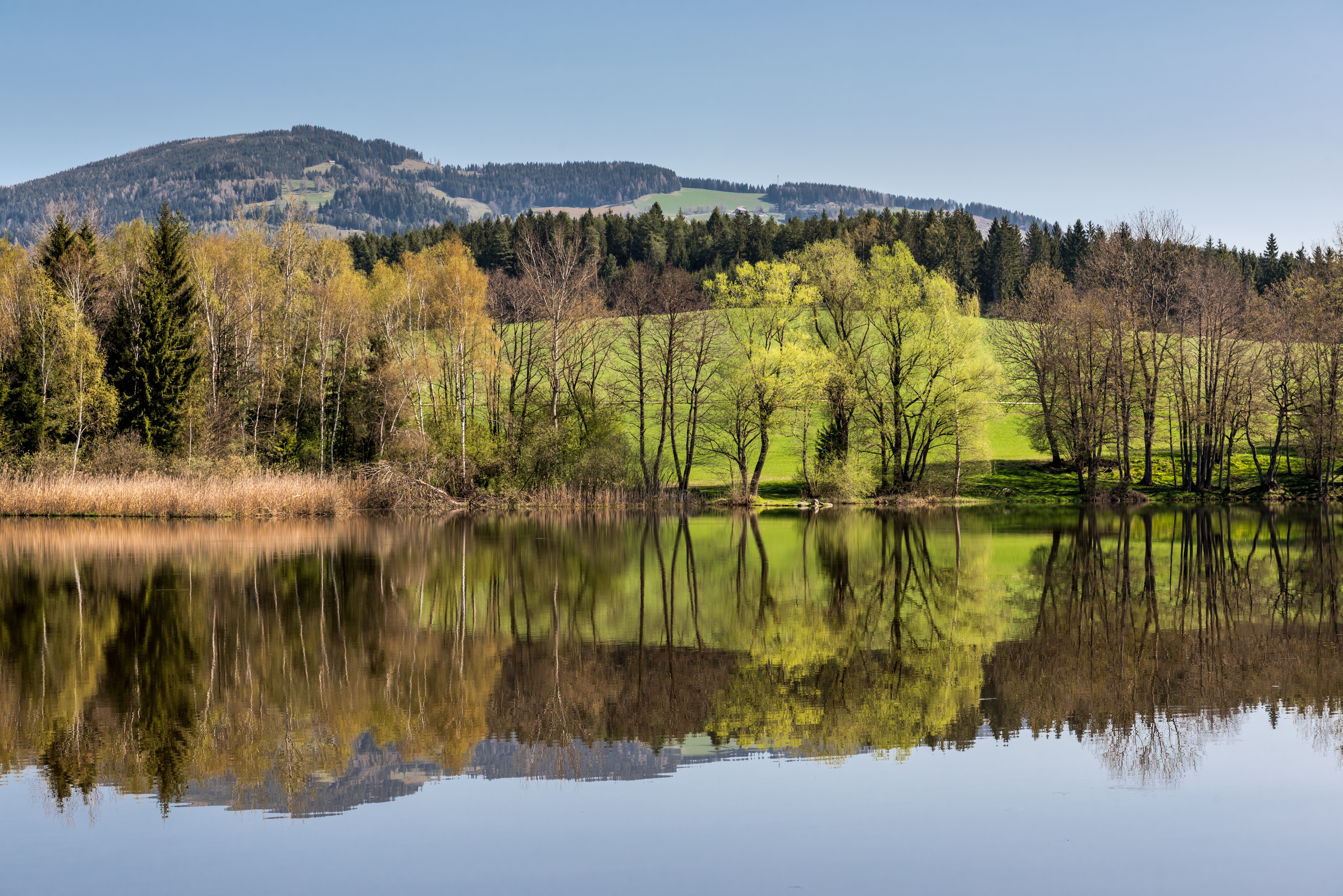 Lake Dietrichstein in Dietrichstein, municipality Feldkirchen in Kärnten, district Feldkirchen, Carinthia, Austria, EU